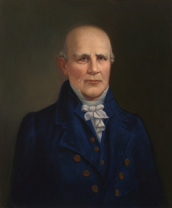 Portrait of Nathaniel Macon, Speaker of the United States House of Representatives, 1911; Collection of the U.S. House of Representatives